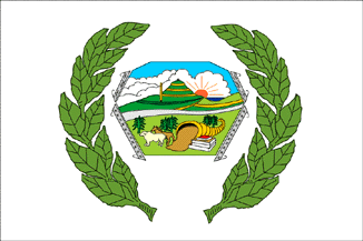 Flag of Jutiapa.